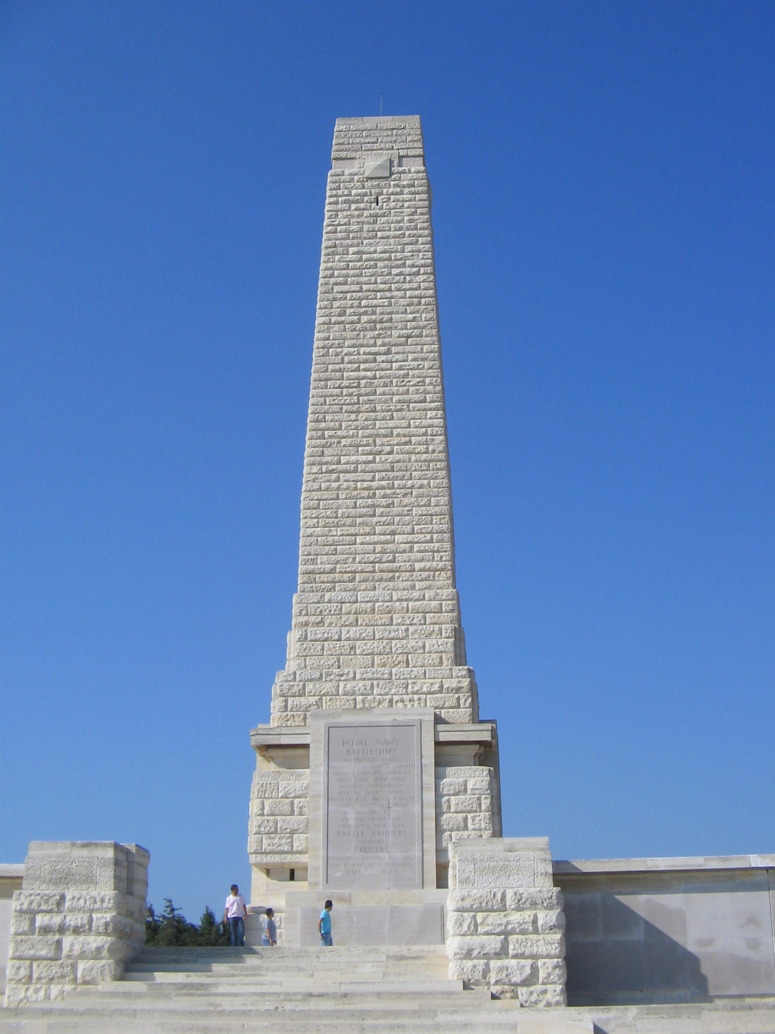 a british war monument for the battle of gallipolli 1915 in canakkale,turkey